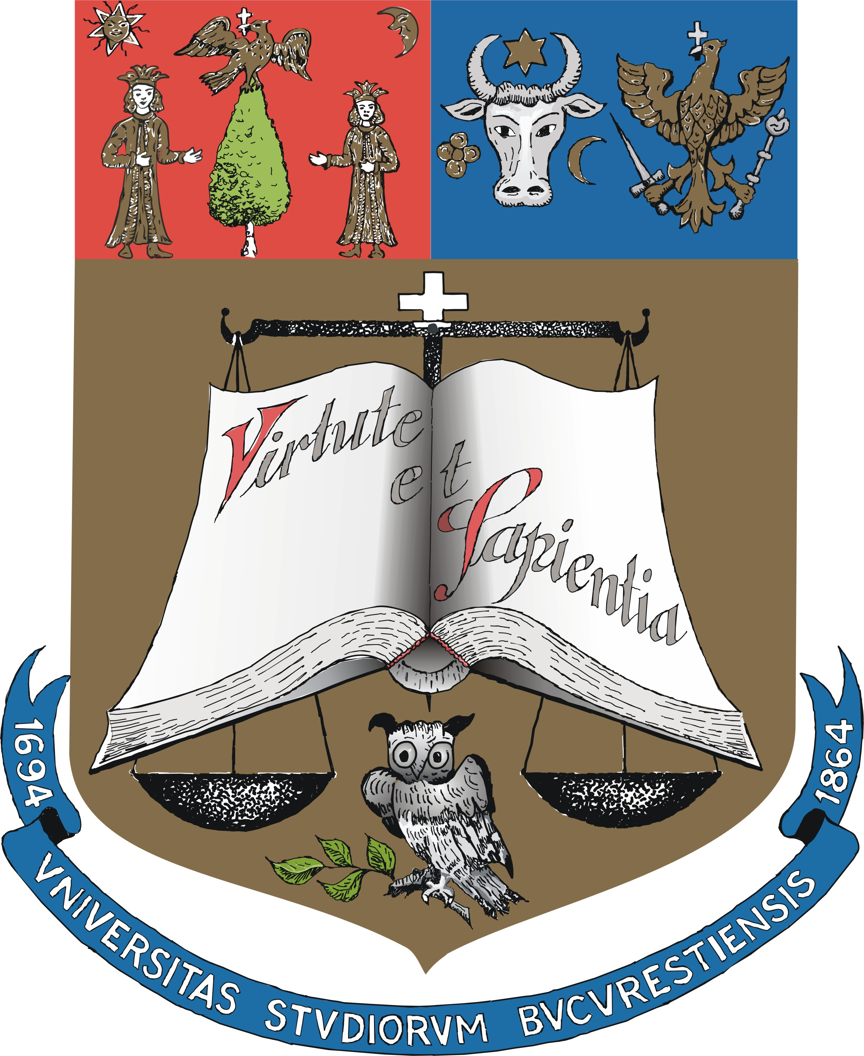 UB logo